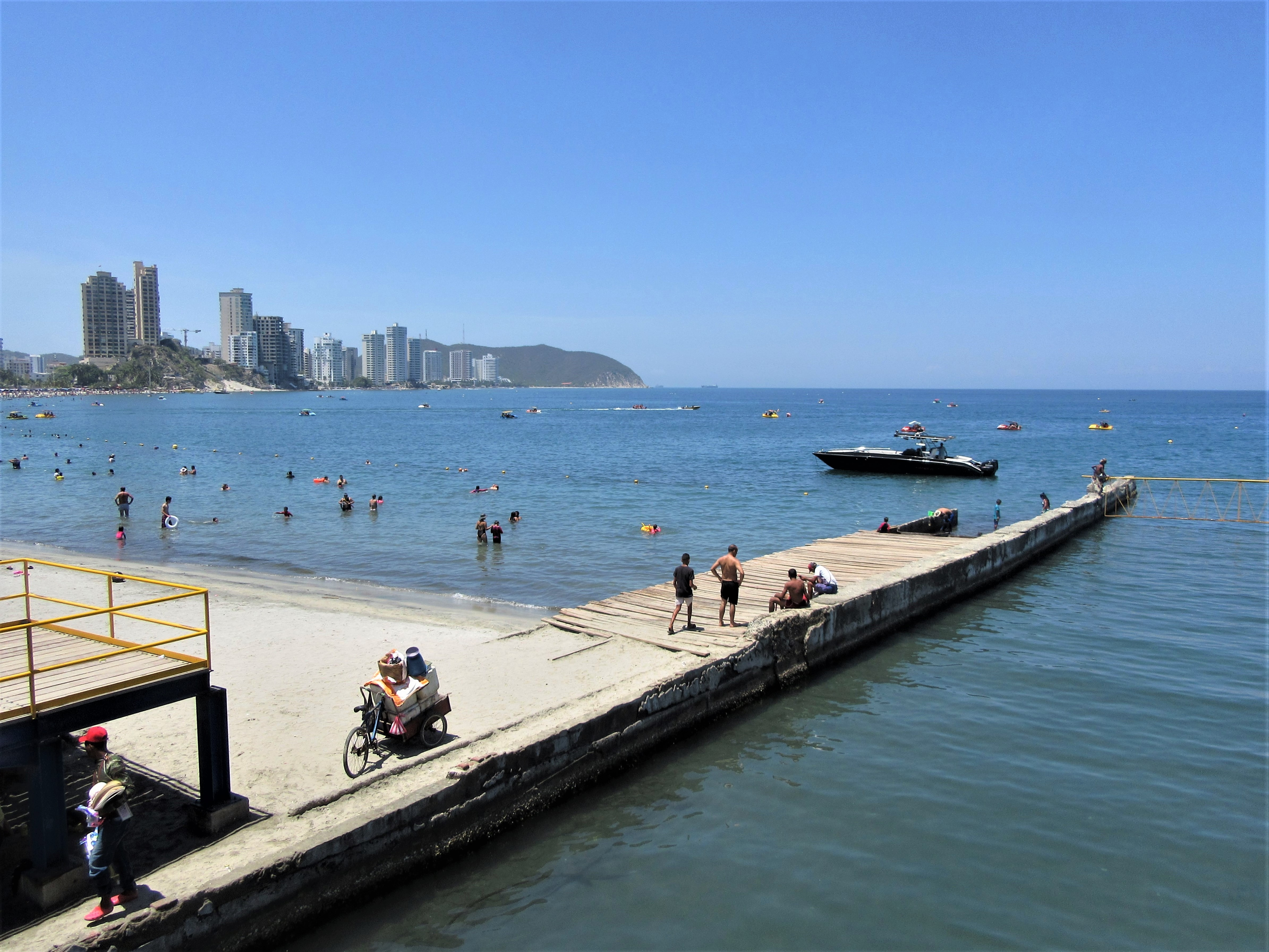 El Rodadero